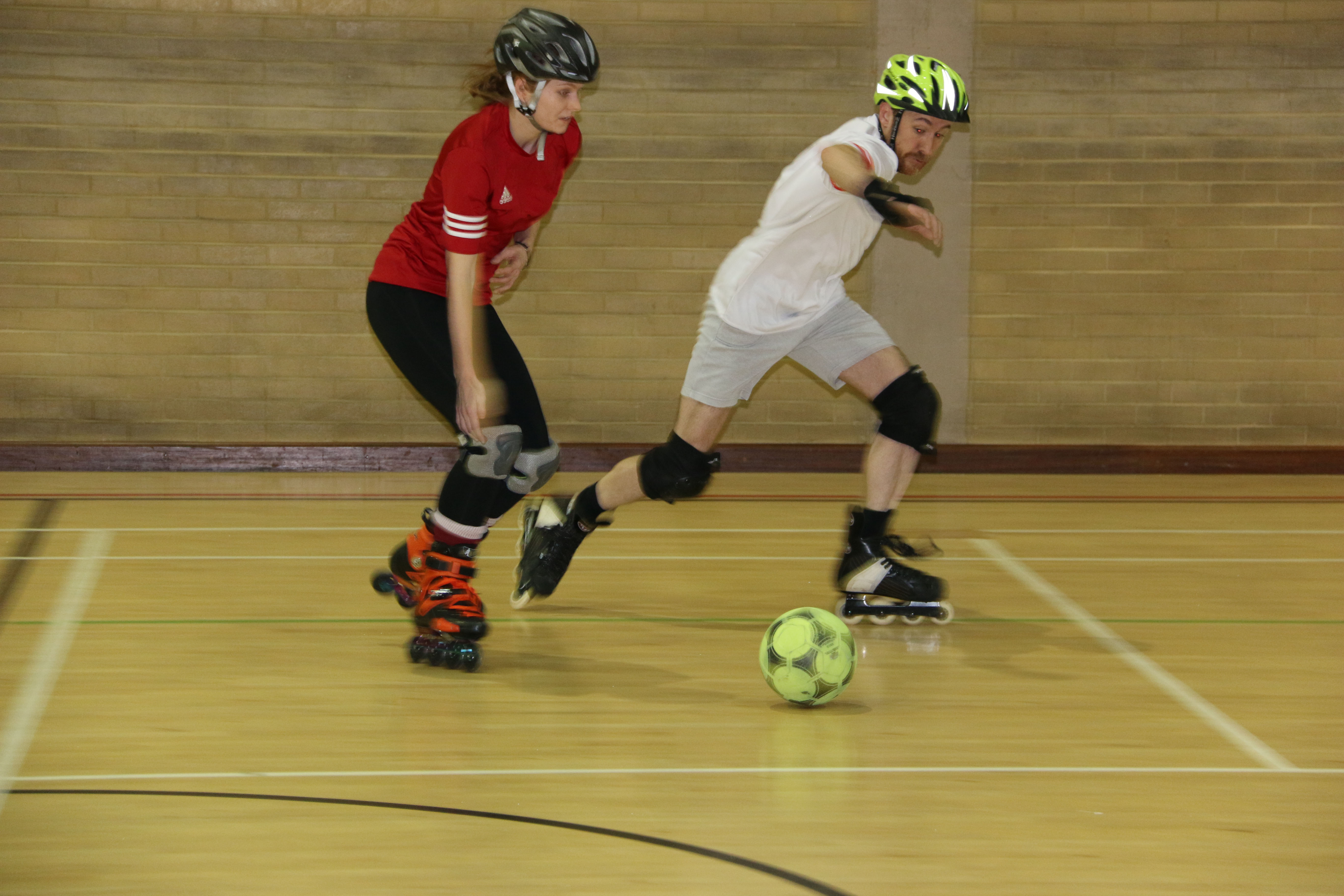 A practise session between London Fire Rollersoccer players. Teams feature both men and women